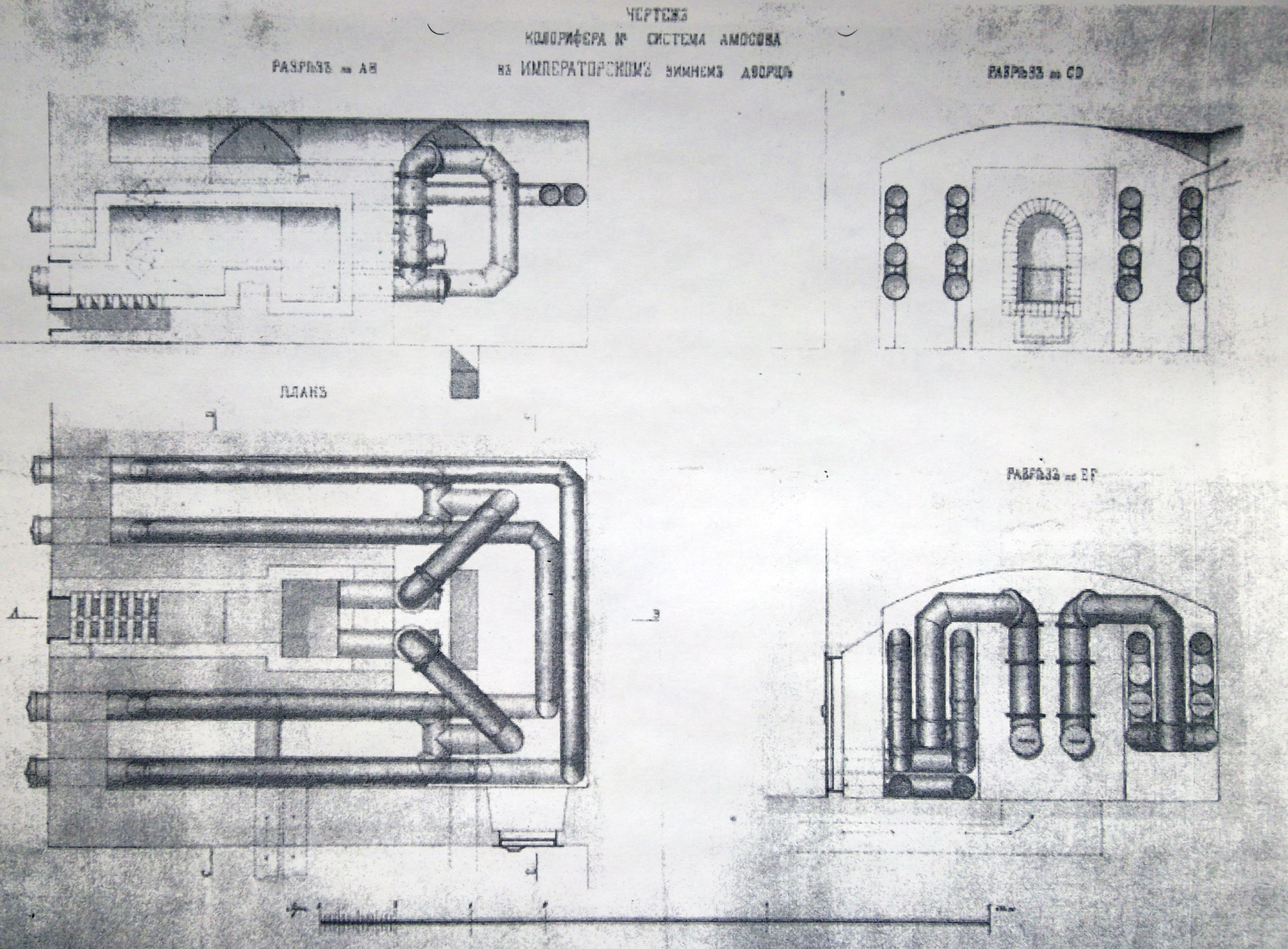 Ammosov Heating-Oven drawing